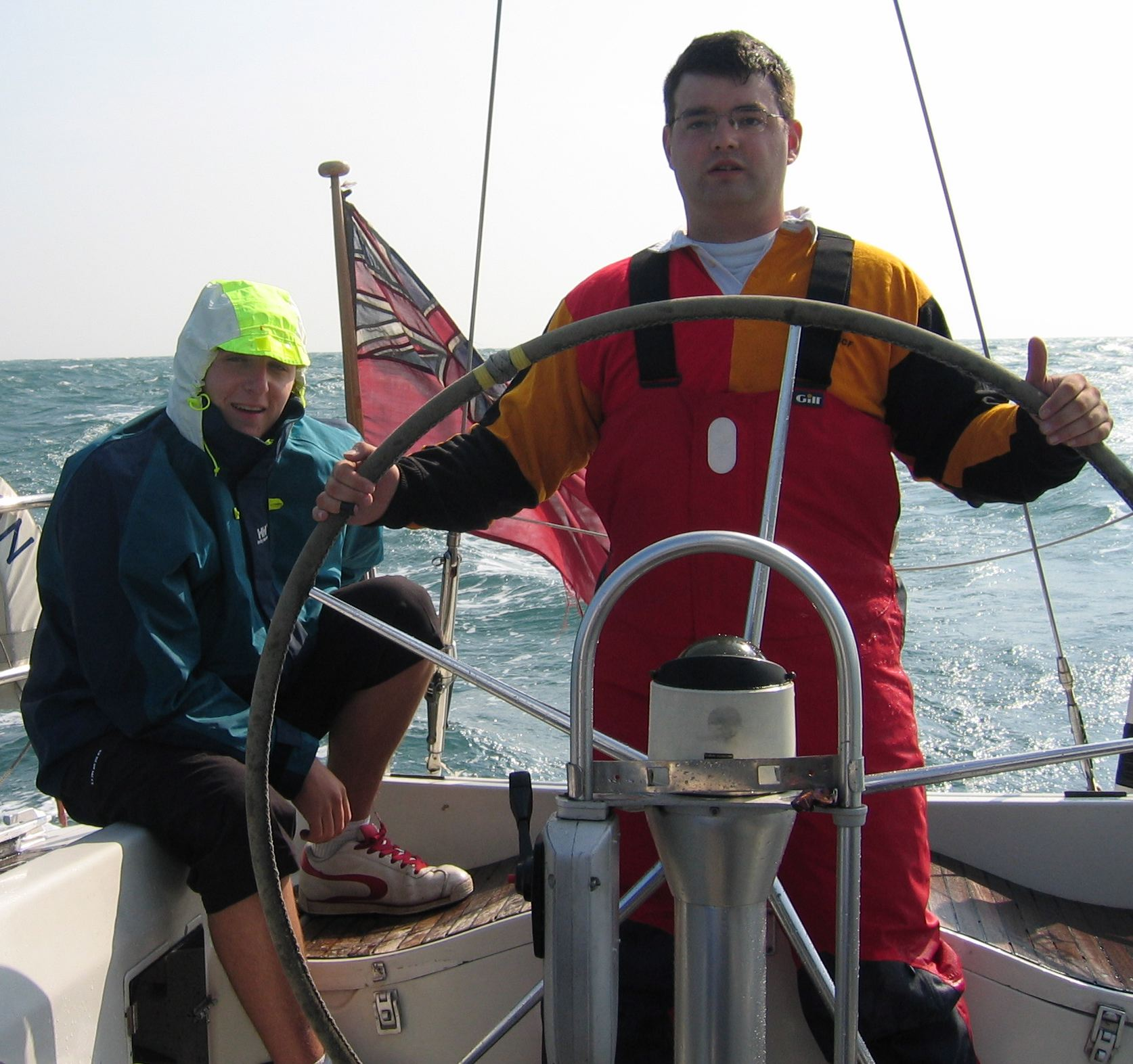 An oilskin jacket (left) and characteristic high trousers (right) (not from the same set!).